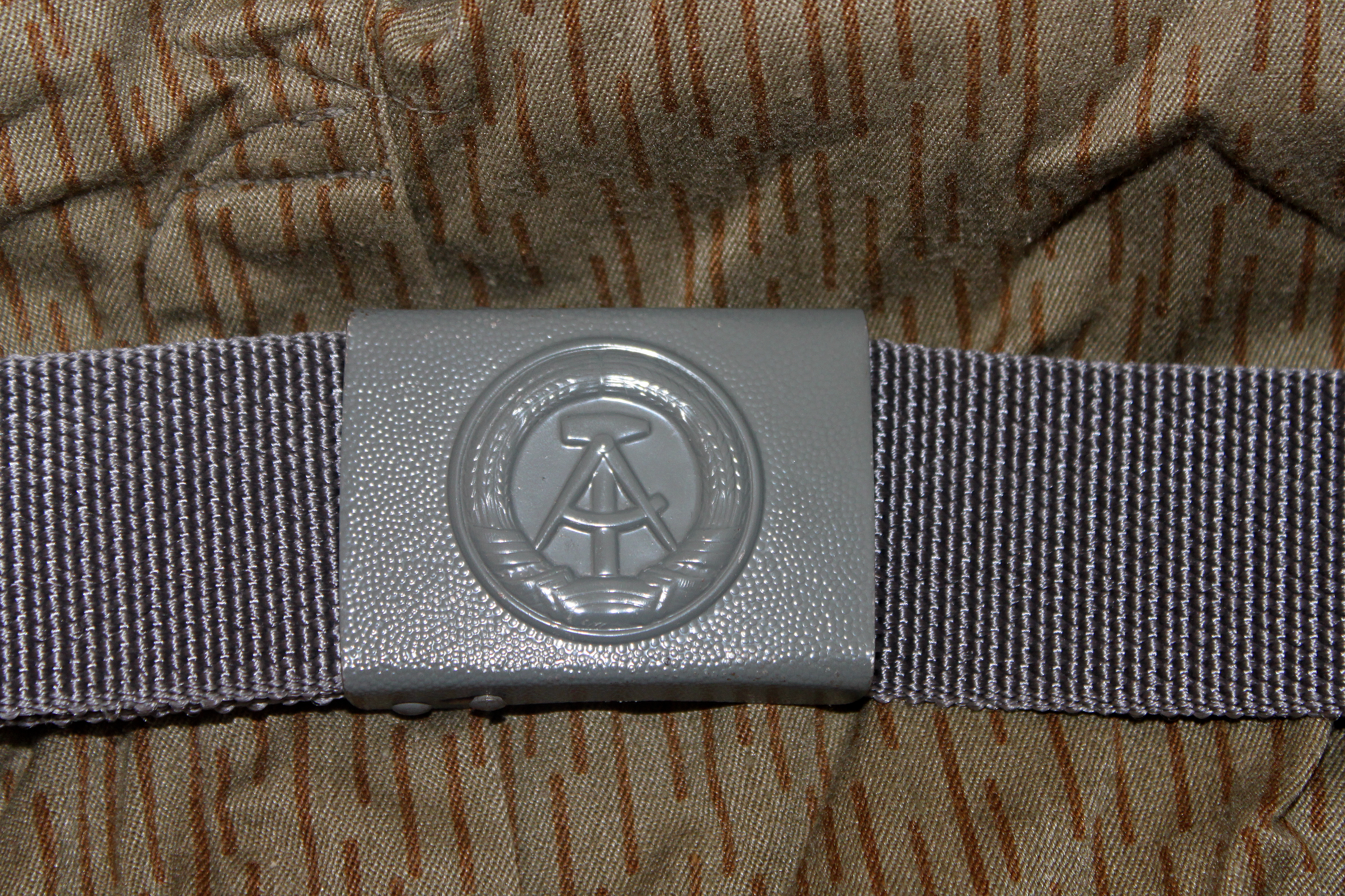 belt buckle of the East German Armed forces (Nationale Volksarmee: NVA) - Battle Dress Uniform